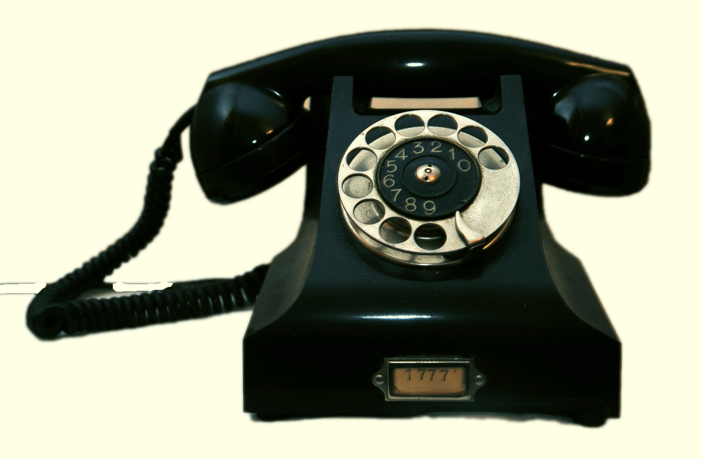 ericsson 1001 1939